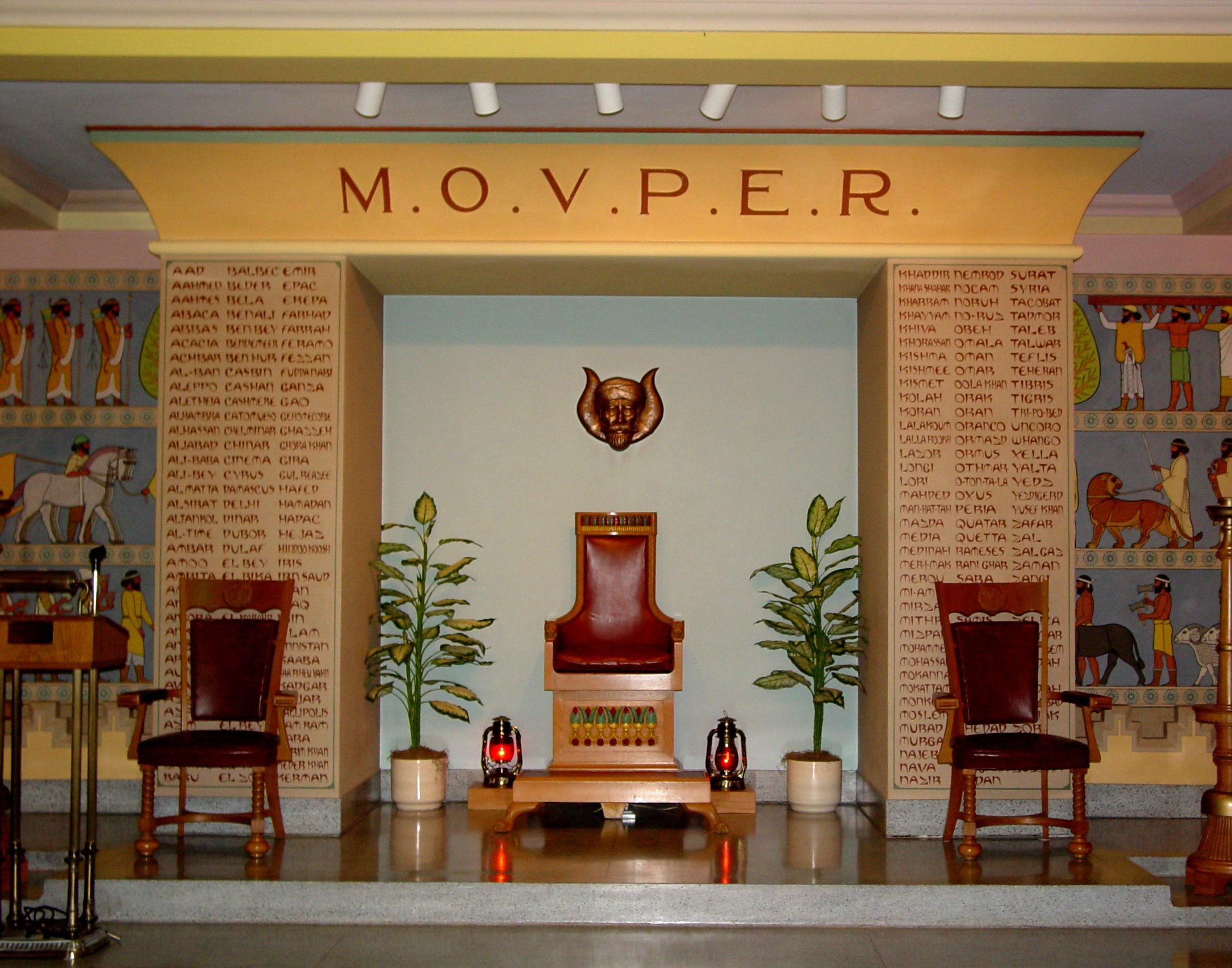 Front of the Grotto Room of the George Washington Masonic National Memorial. Photo by Ben Schumin on March 8, 2003.